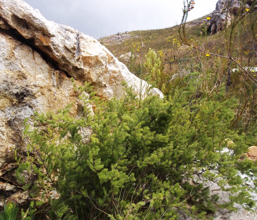 Asparagus rubicundus - Greyton - South Africa